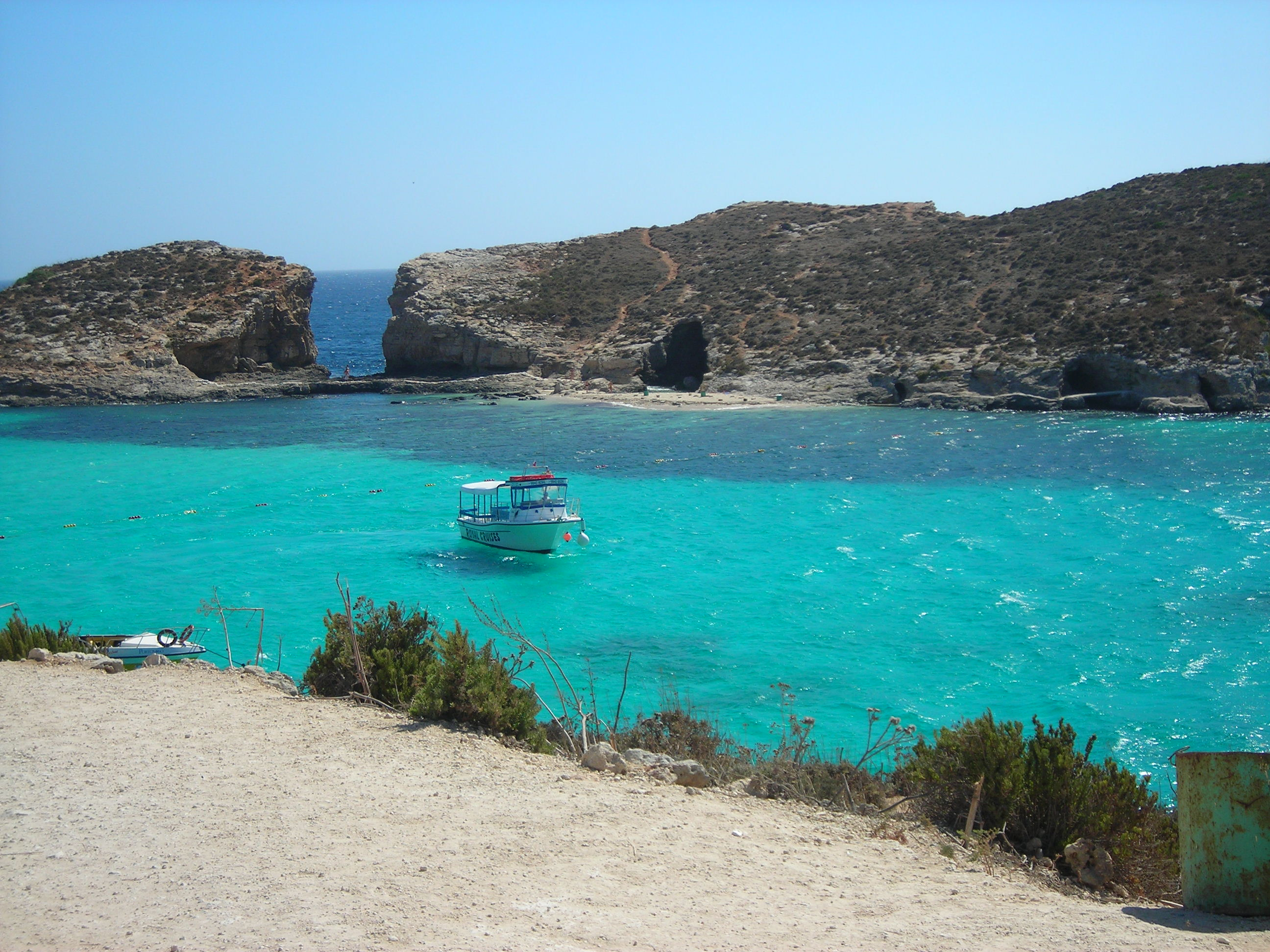 The Blue Lagoon and Cominotto island